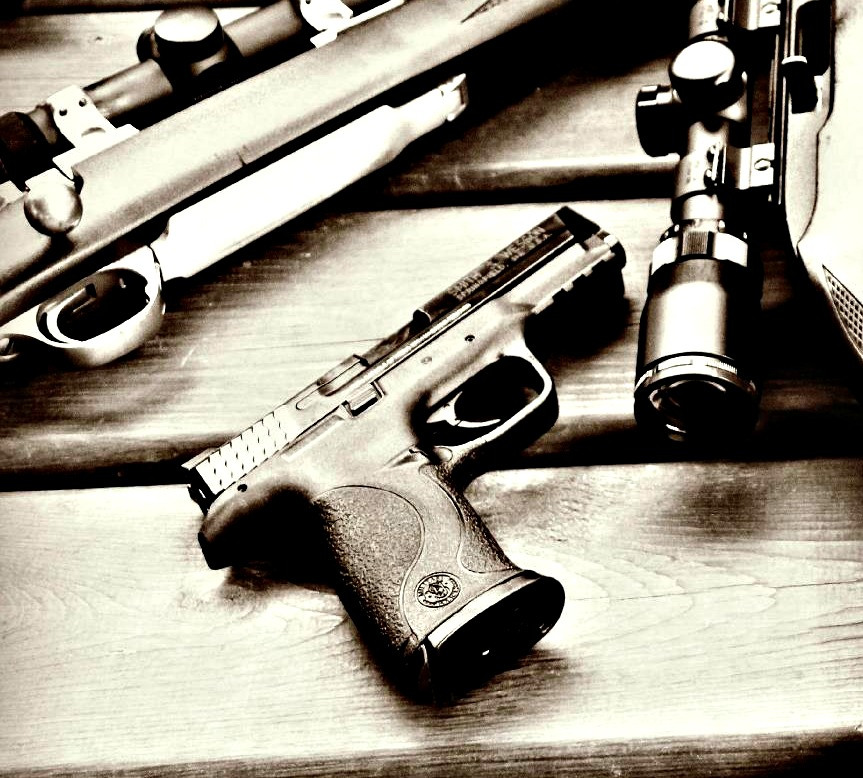 The file shows a Smith & Wesson M&P Other information Taken with a Canon EOS 60D, f/4, 1/40 sec. ISO-1250